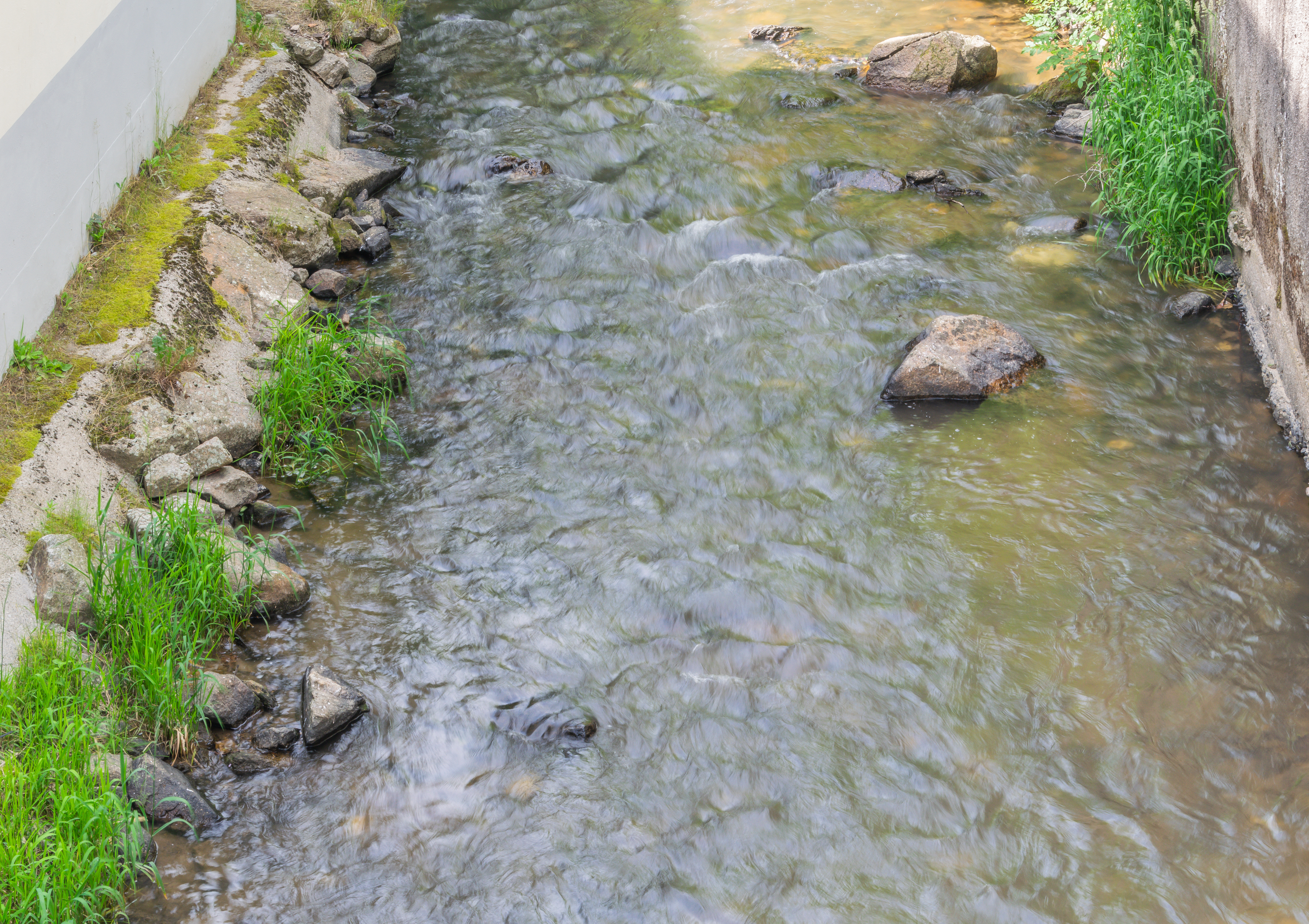 Céor river in Cassagnes-Bégonhès, Aveyron, France